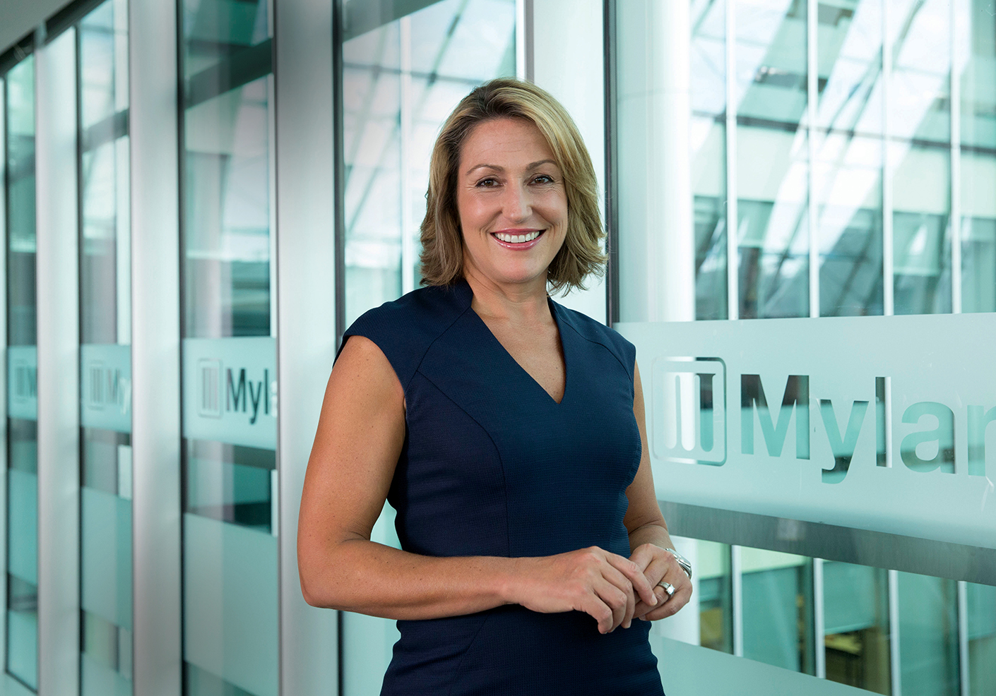 Heather Bresch at Mylan HQ